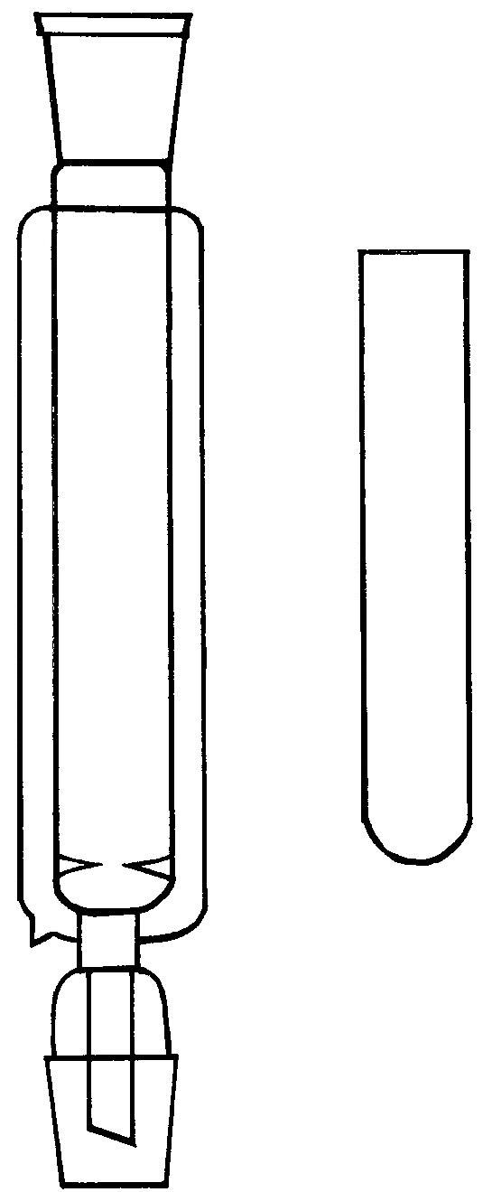 The extraction after Twisselmann